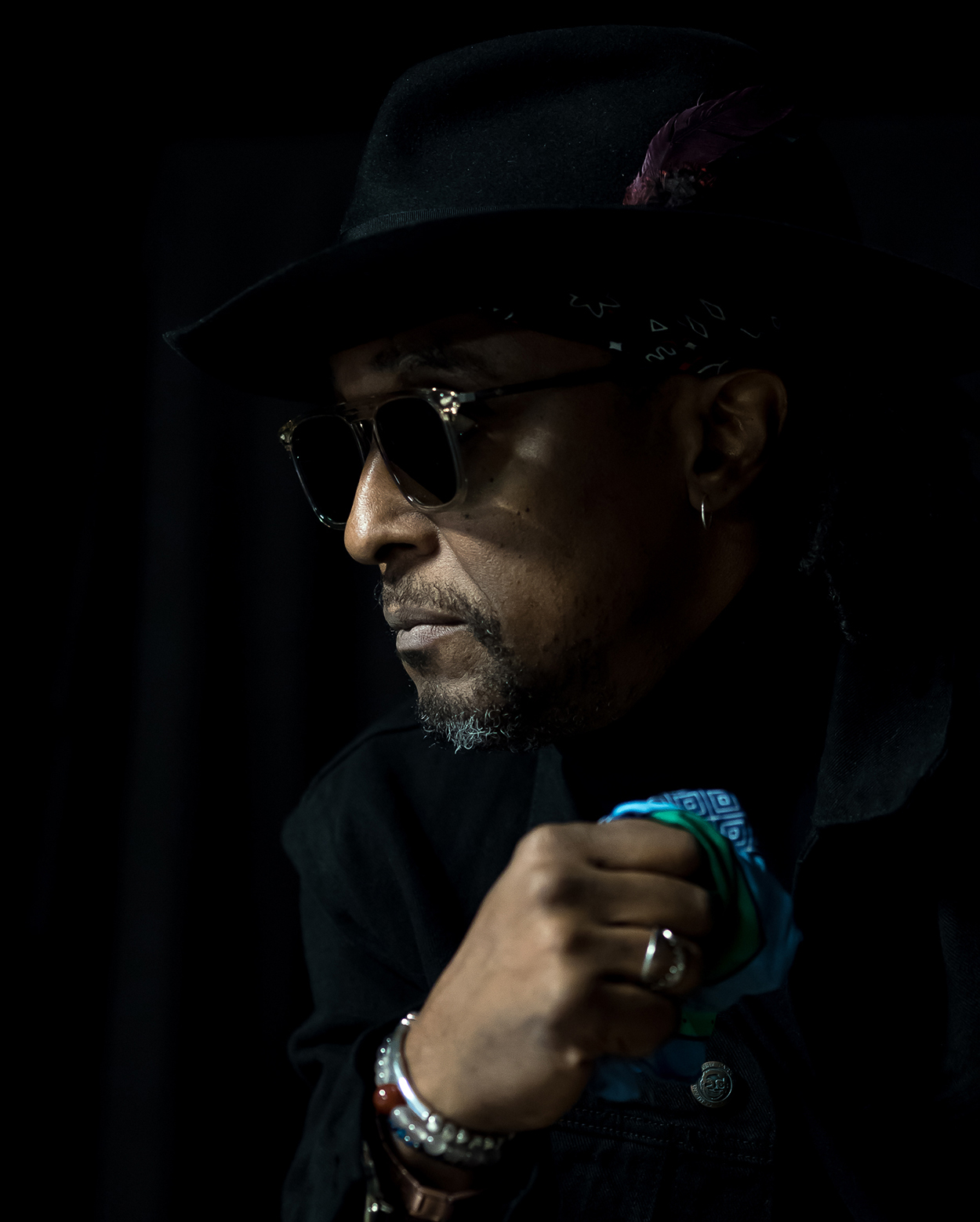 Bernard Fowler promoting his new album, Inside Out